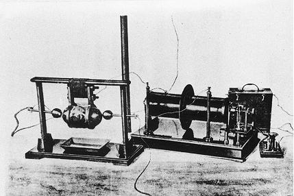 Photo of early spark-gap radio transmitter used by Guglielmo Marconi during pioneering wireless telegraphy experiments at La Spezia, Italy in July 1897. It used an induction coil (right) powered by batteries in the box (rear) to apply pulses of high voltage to a Righi type spark gap (left), creating sparks which excited brief oscillating currents in a 75 ft. vertical antenna attached to the spark gap, ending in an 8 foot square sheet of metal. The operator turns the transmitter on and off rapidly with the telegraph key (at right) to spell out messages in Morse code. On July 18, 1897 in tests for the Italian Marine Ministry, it successfully transmitted signals 16.3 km (14 miles) from St. Bartholomew to a ship in the Sea of Spezia (source, p.337-339).